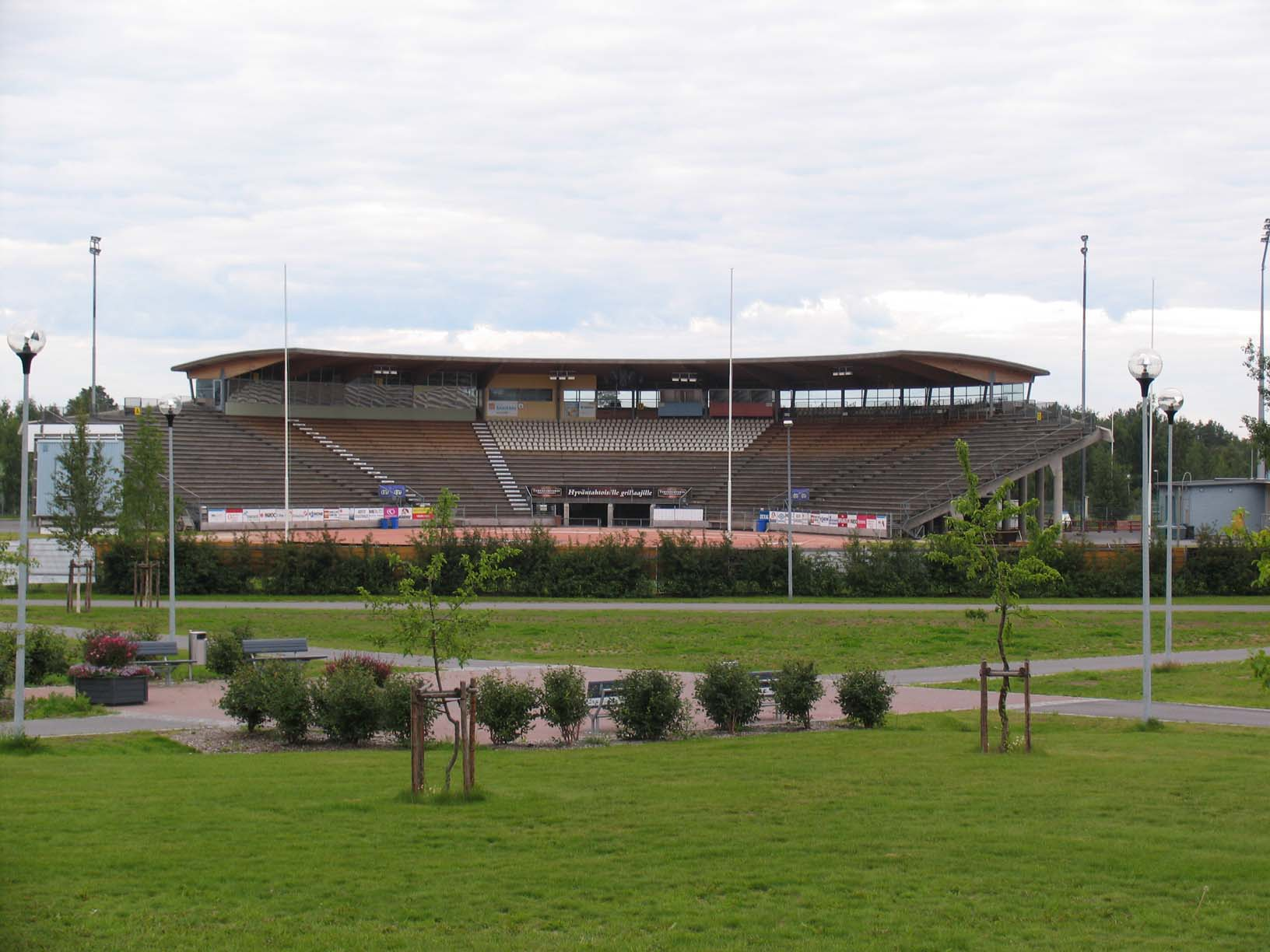 Aina pesäpallo ("Finnish baseball") stadium in Oulu, Finland